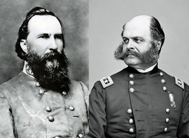 Photomontage of the principal commanders of the Knoxville Campaign by Hal Jespersen. (Formed from two public domain images already in Wikipedia.)